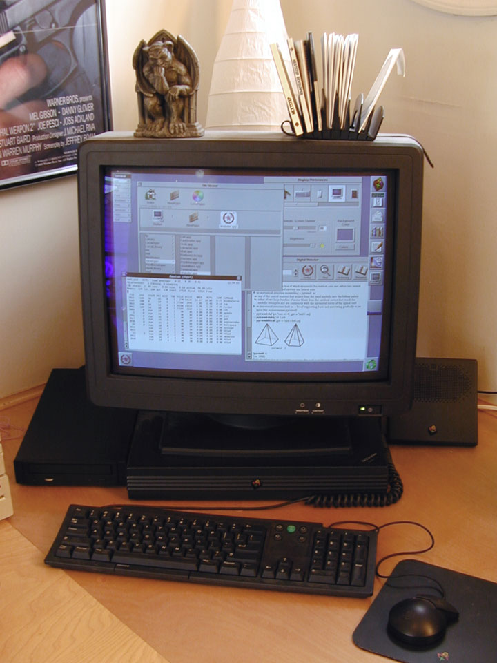 NeXTstation Turbo Color in a home office.